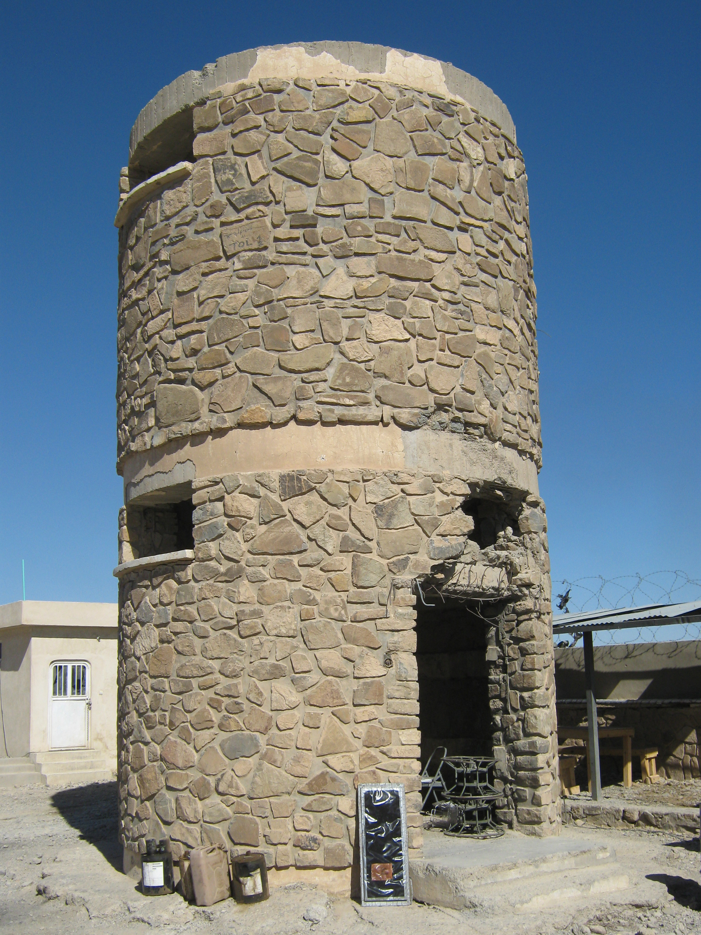 Tower at Forward Operating Base Delaram, Nimruz Province, Afghanistan. The Soviet Union purported built this tower during their occupation of Afghanistan in the 1980s.